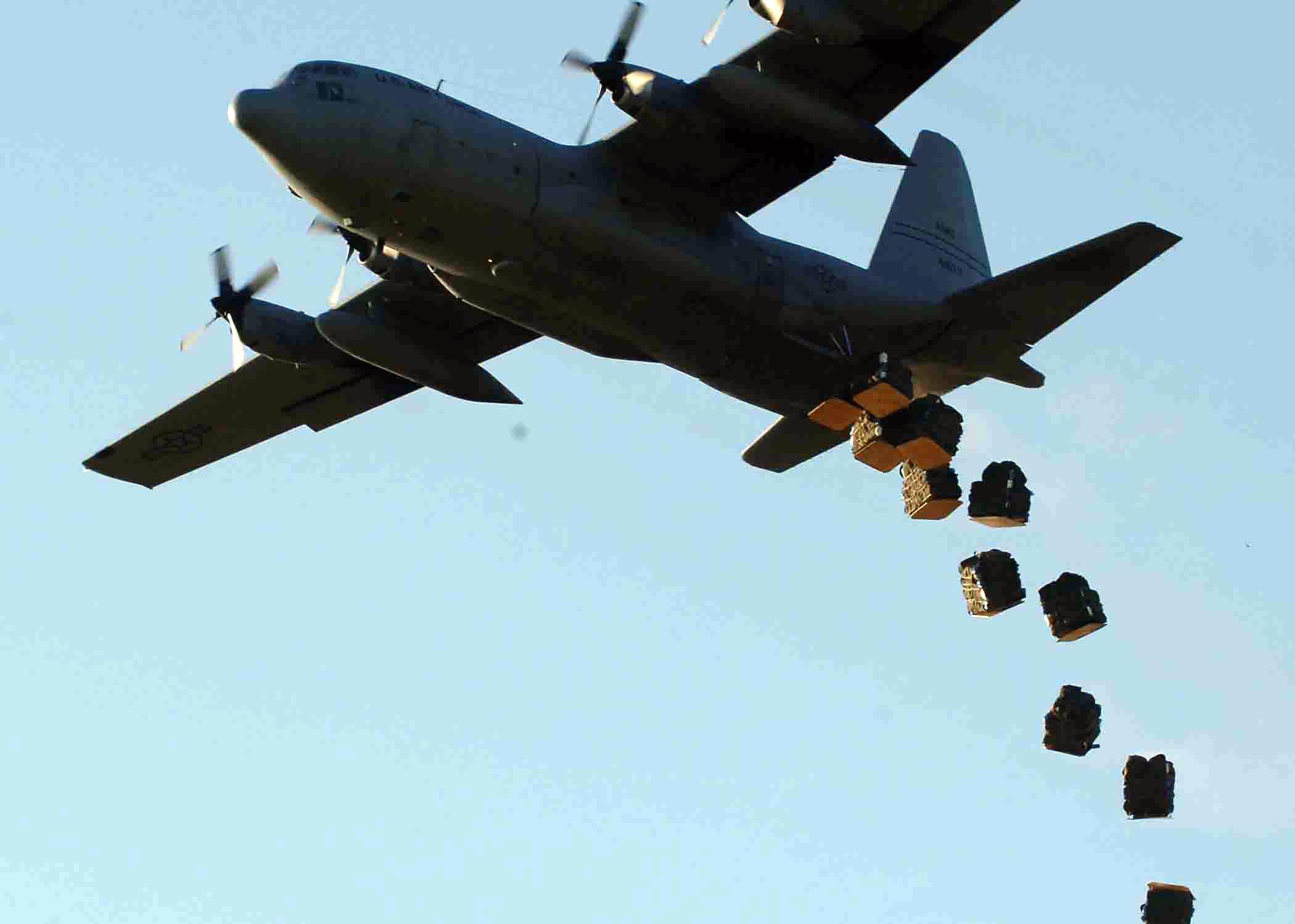 Dadaab, Kenya (Dec. 9, 2006) - Bundles of shelters and mosquito nets are dropped from a U.S. Air Force C-130 cargo plane onto a field in rural Kenya. The material is to help 160,000 victims of recent flooding in Kenya, who have been cut off from the rest of the country by floodwaters that washed roads away. Combined Joint Task Force - Horn of Africa service members were asked to provide the help and delivered about 150 metric tons of needed supplies. U.S. Navy photo by Chief Mass Communication Specialist Robert Palomares (RELEASED)